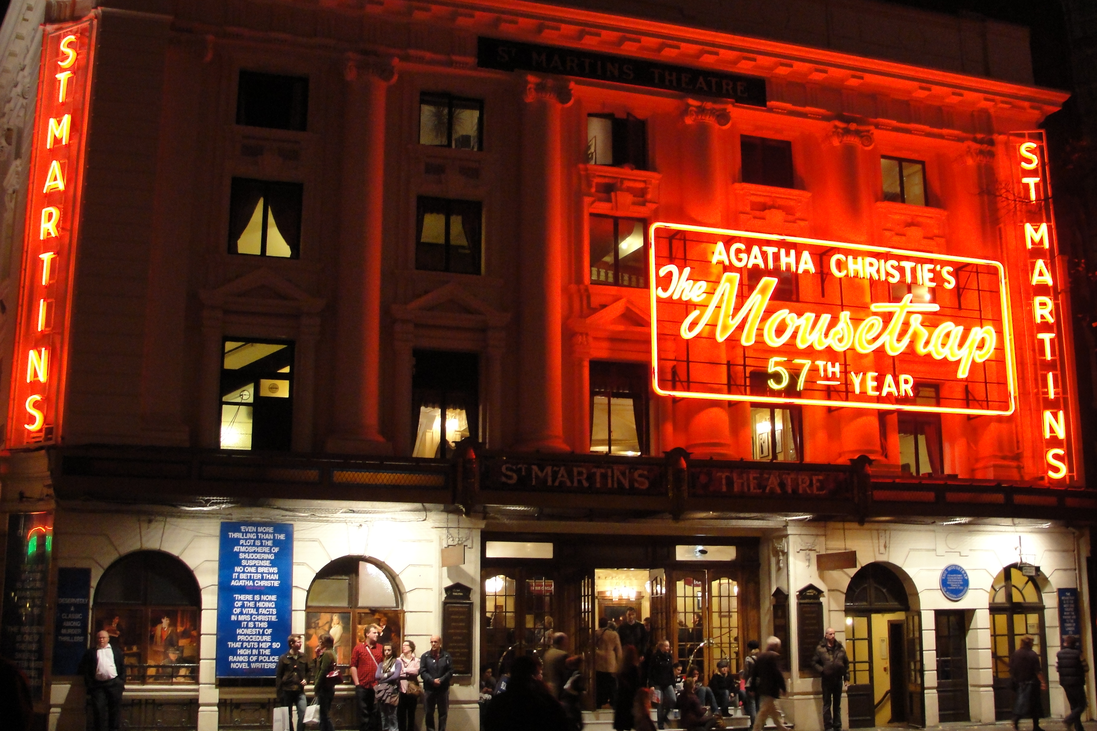 St Martins Theatre in October 2009